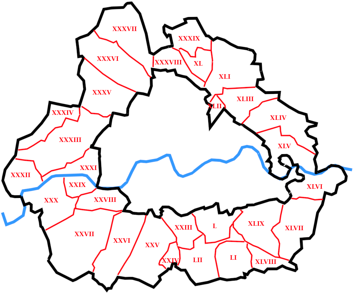 New districts of Cracow in 1941 (approved by Poland in 1945) borders based on p.56